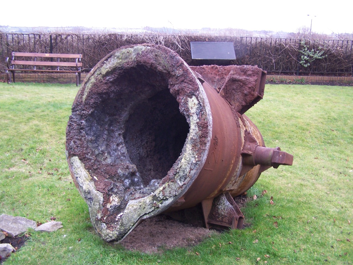 A ladle once used to handle molten iron A slag pot used to handle molten iron slag at Stanton Ironworks near Ilkeston in Derbyshire and now on display in the Gardens of the Erewash Museum in Ilkeston